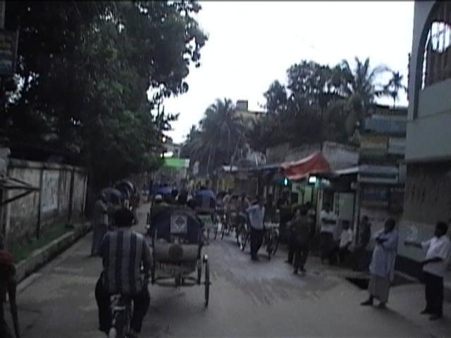 Road of Bogra City, Bogra, Bangladesh.